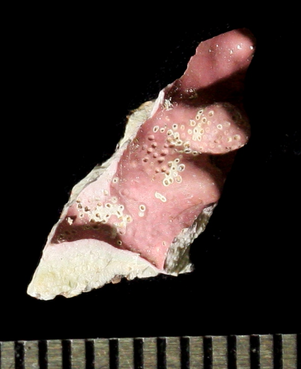 Lithothamnion glaciale Kjellman; intertidal. mm scale. Herrington cove, Grand Manan Island, NB, Canada